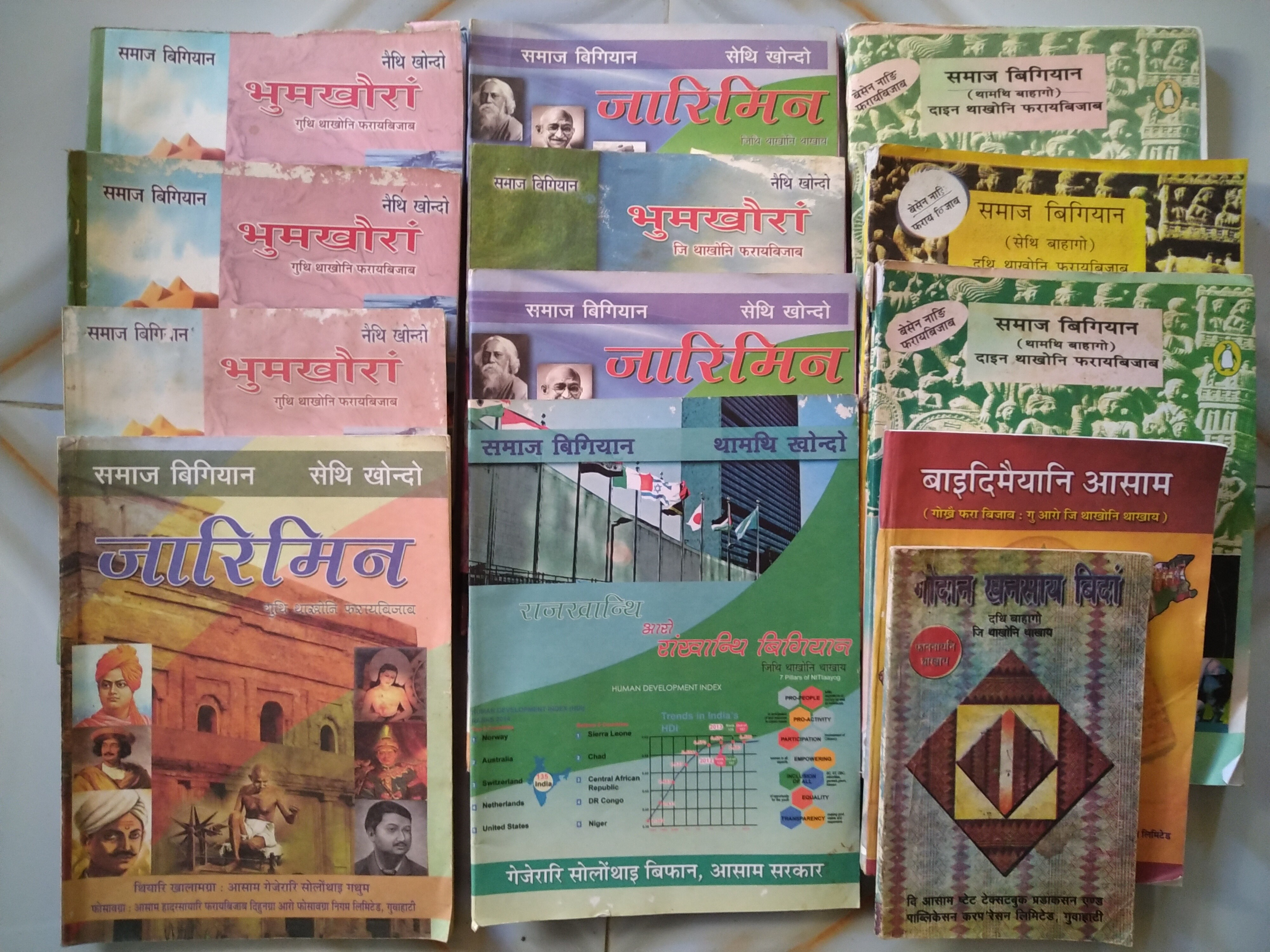 Social science textbooks in Bodo language published by Assam Textbook Production And Publication Corporation.